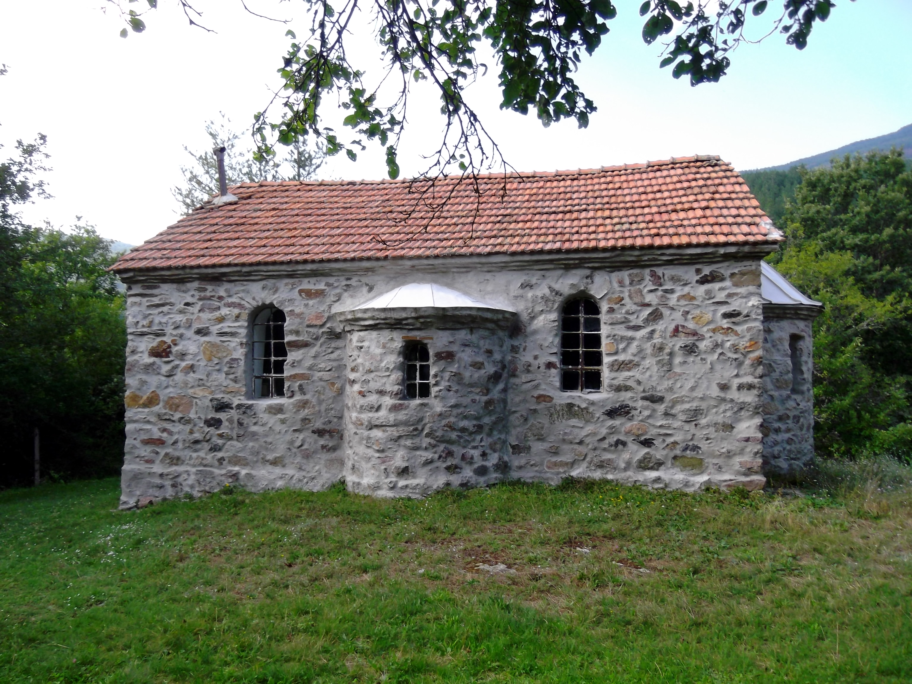 The renovated church in Leskovdol village. (2014)